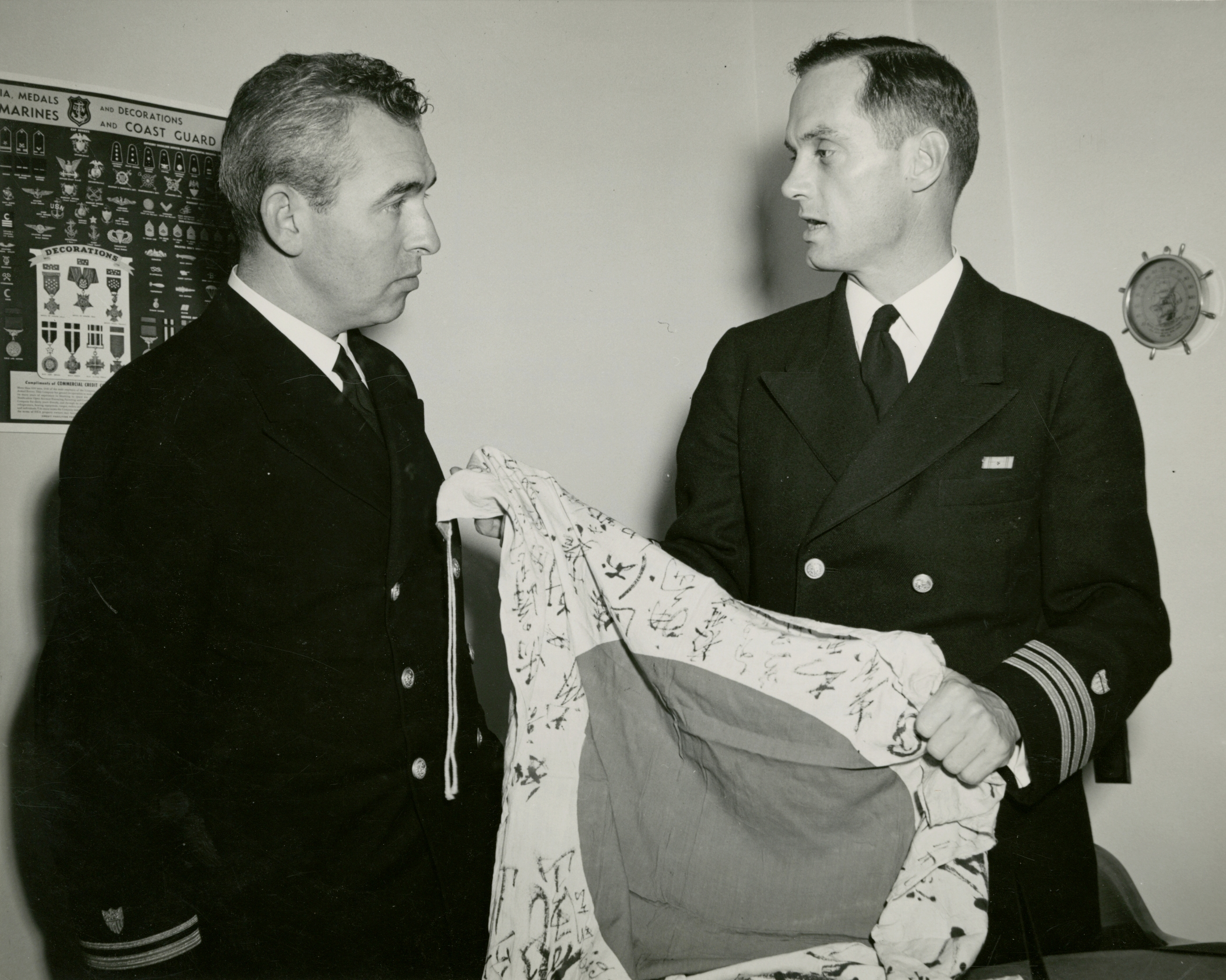 LTJG Mel Venter (Public Relations Officer) & Commander D. H. Dexter (Personnel). CDR Dexter is explaining the Japanese flag (memento of his exploits) to LT Venter during a recent press conference in San Francisco. CG Photo No. 202432.